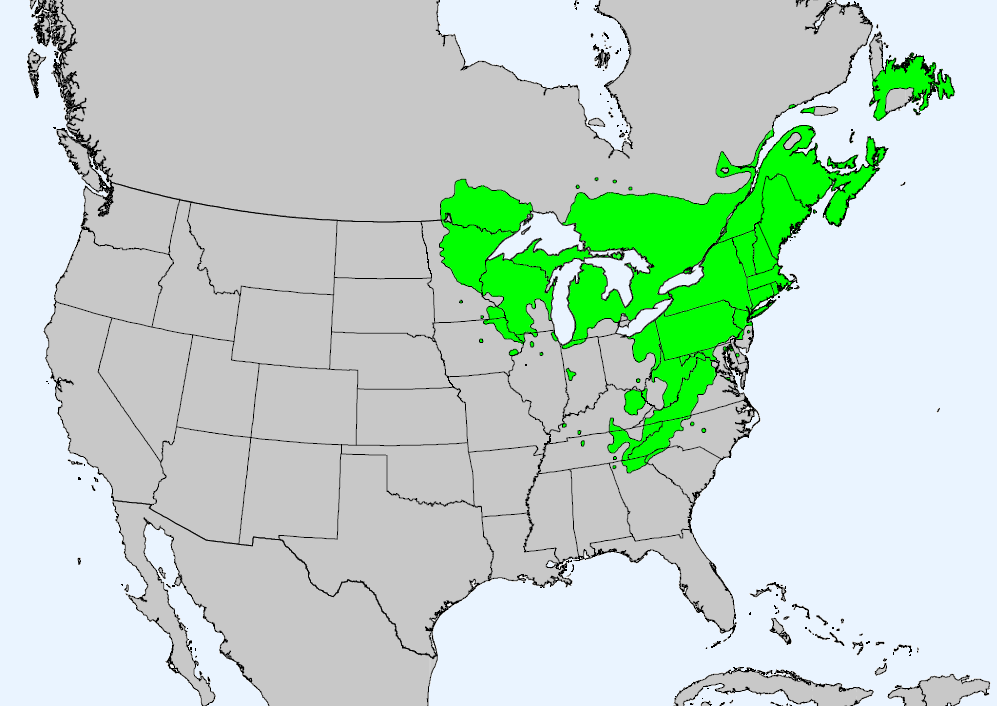 Range map of Pinus strobus — Eastern White Pine.